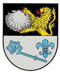 Coat of arms of Sitters